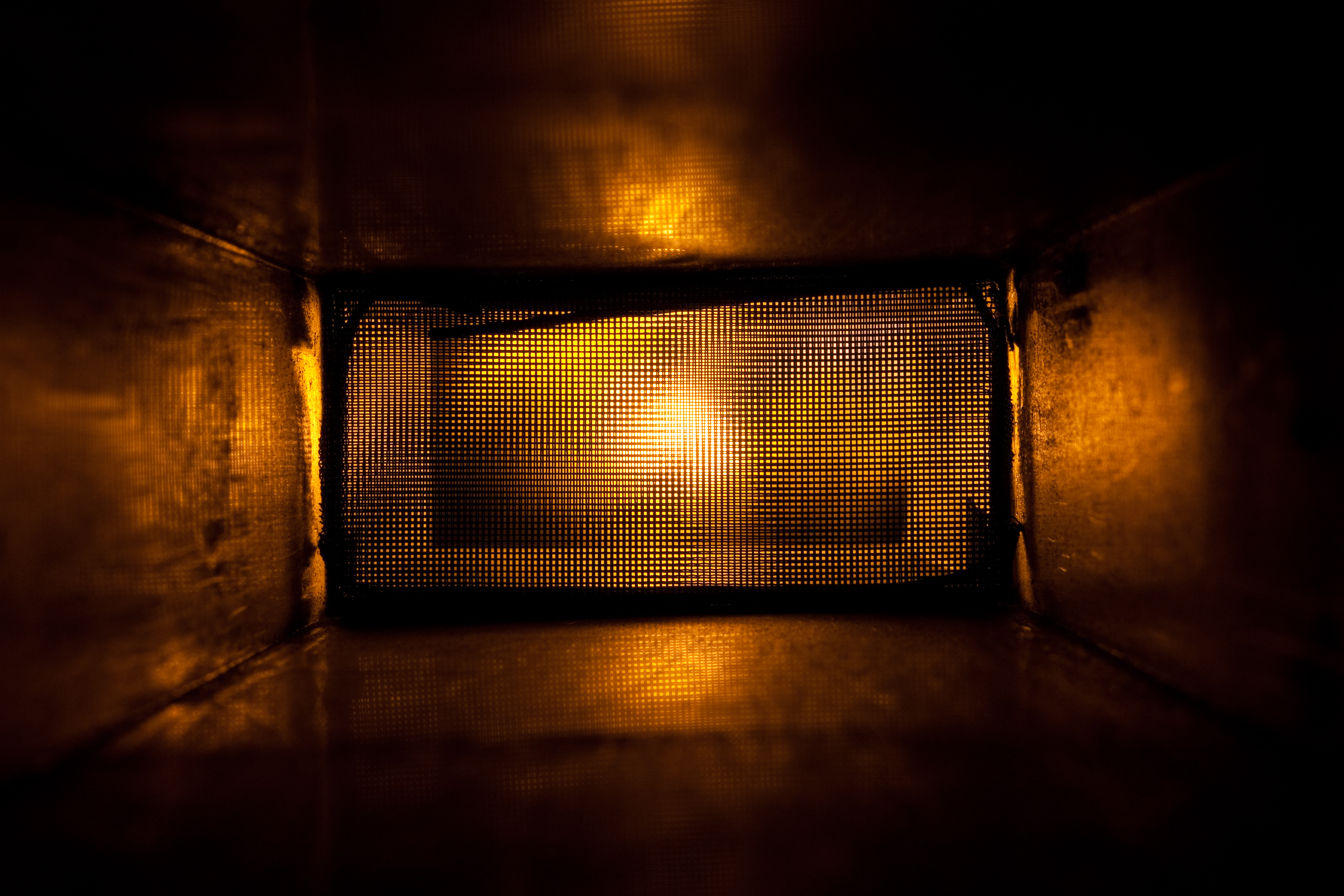 Interior view of a Rijke tube. Visible in the image is a wire gauze being heated by a gas torch, and surrounding resonant tube.